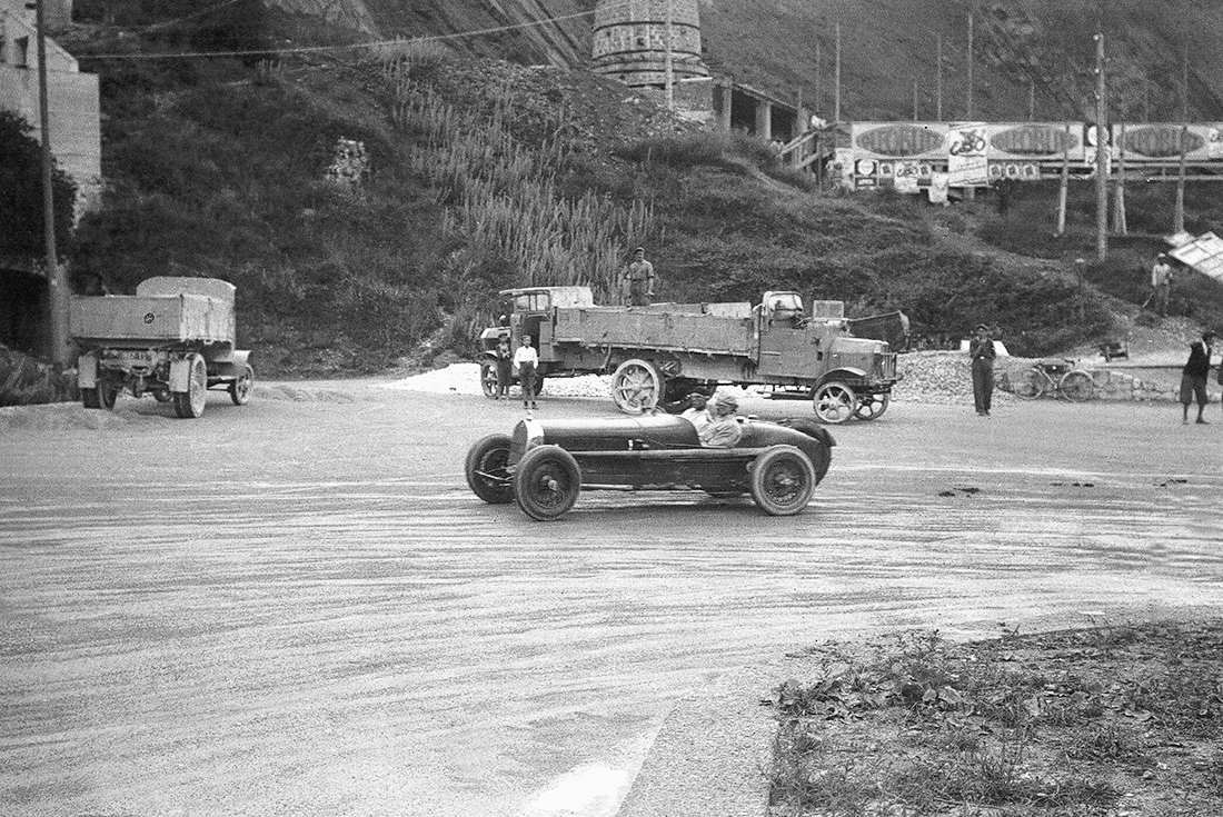 Trieste-Opicina hillclimb, at the "Faccanoni curve". The car looks like an Alfa Romeo P2, such as those entered by Scuderia Ferrari (there were several), and this may be the June 15, 1930 race. The starting number does not show.